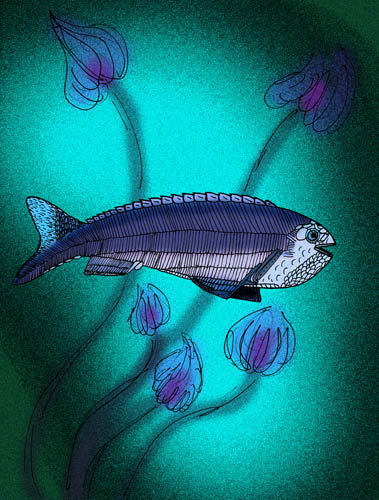 Reconstruction of the Late Silurian anaspid agnathan Cowielepis ritchiei, of Cowie Bay, Scotland